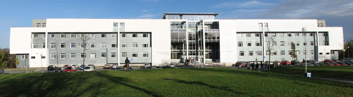 Integrated building of Faculty of Business and Management and Faculty of Electrical Engineering and Communication, Brno University of Technology, Brno, Czech Republic